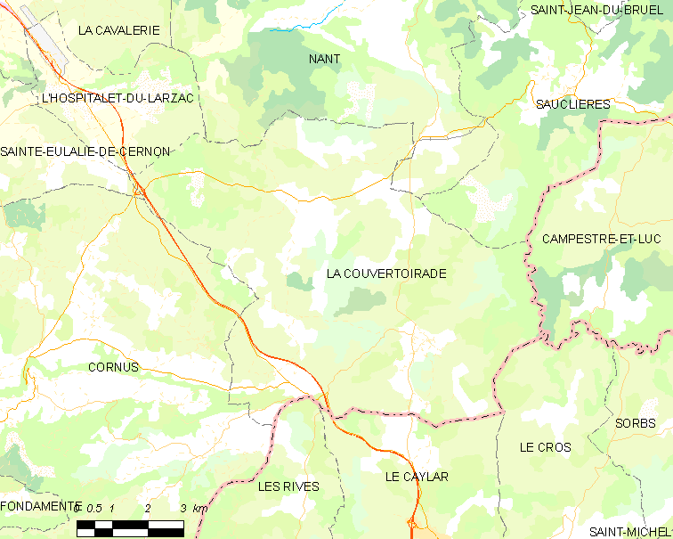 Map commune FR insee code 12082.png - La Couvertoirade